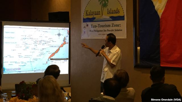 Mayor Eugenio Bito-onon of the Kalayaan Group of Islands, the Philippines-controlled outcroppings in the Spratly Islands, points out the Philippines' claims in the Spratlys during a fundraising dinner to gain support for a proposed "ecotourism zone" in the islands. Manila